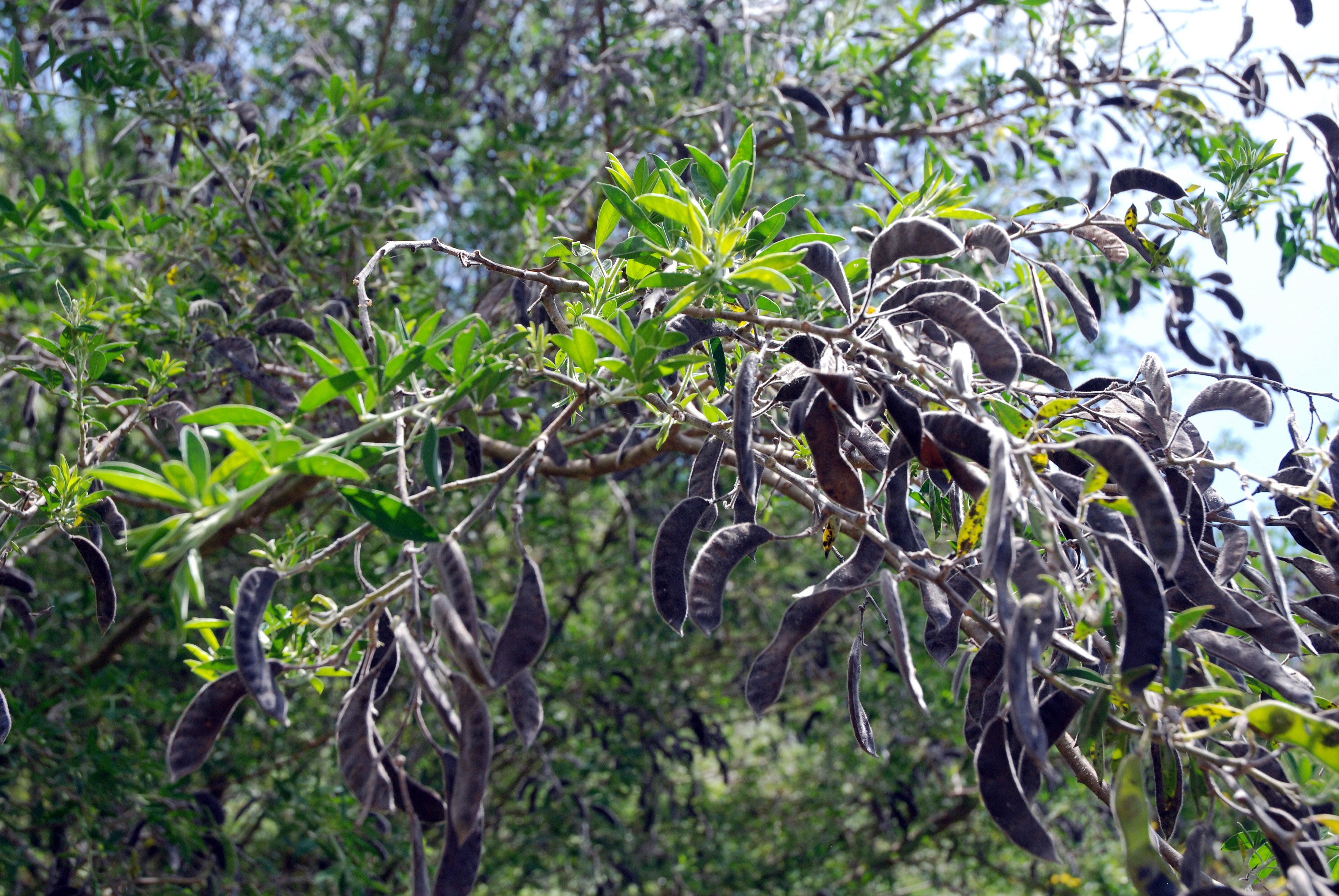 Chamaecytisus prolifer, Caldera de Taburiente, La Palma, Spain